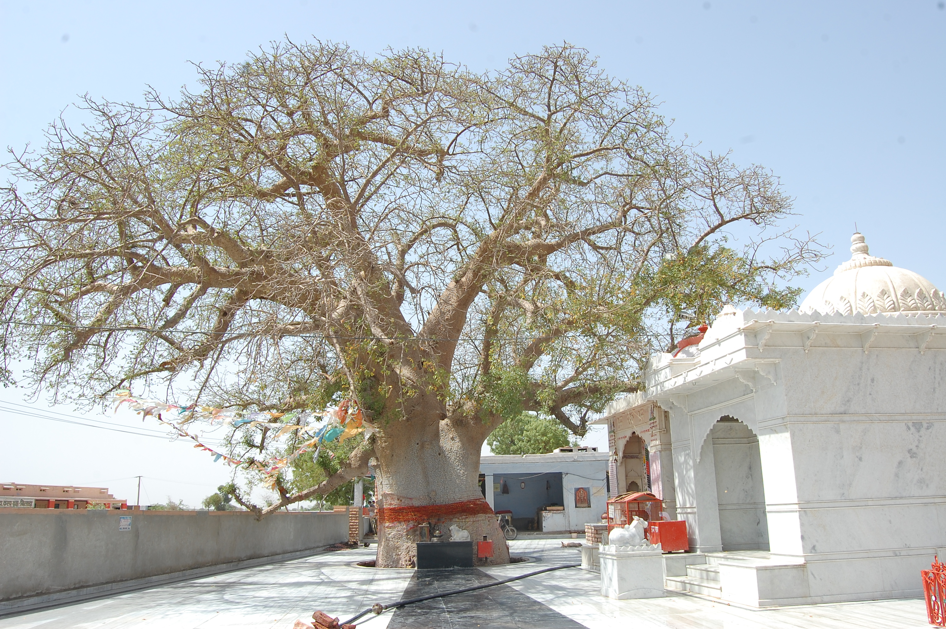 Kalp Vriksha Bilara (wish-fulfilling divine tree )